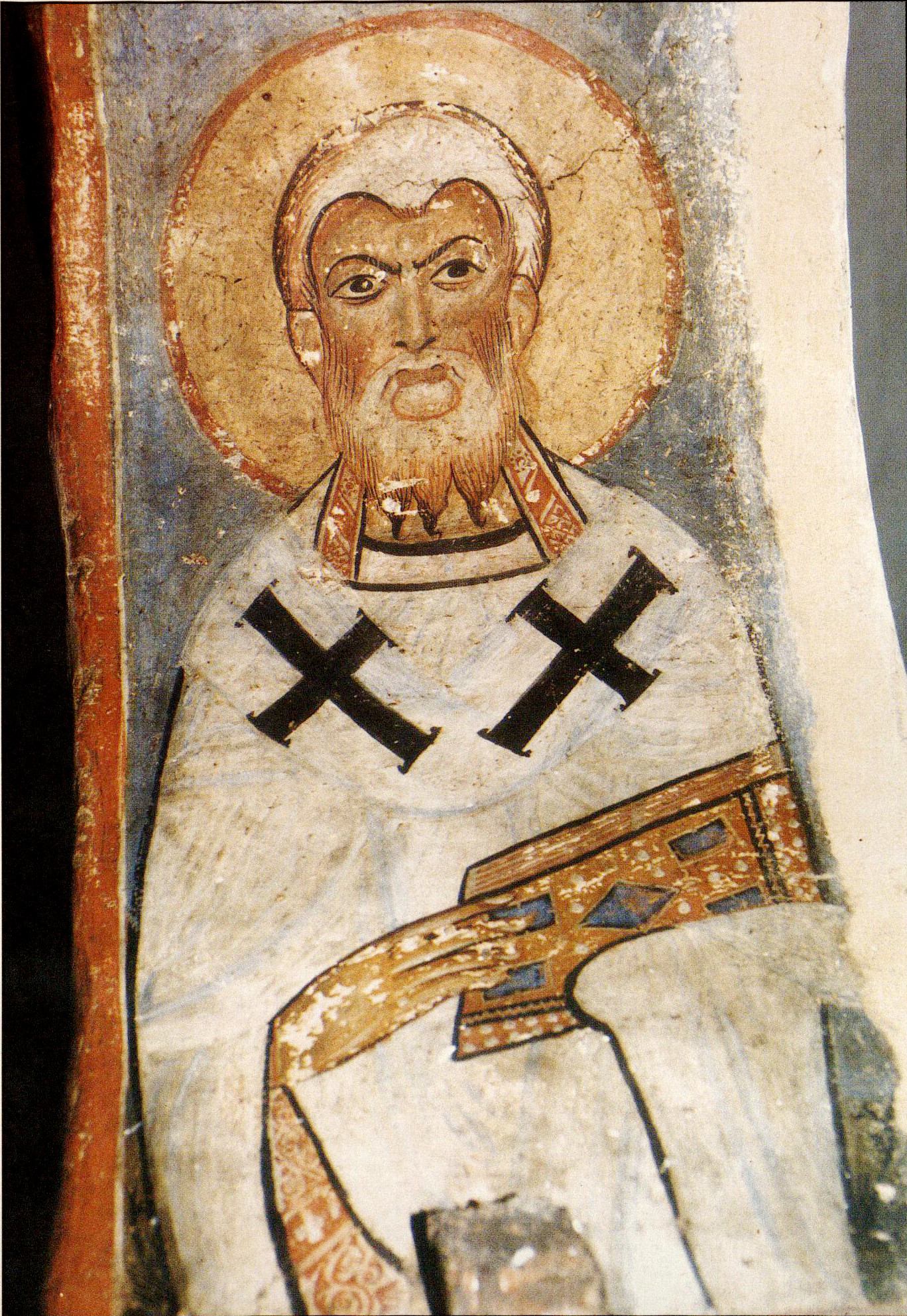 Fresco of Saint Athanasius. From the church of Panagia Episcope on the Greek island of Santorini.